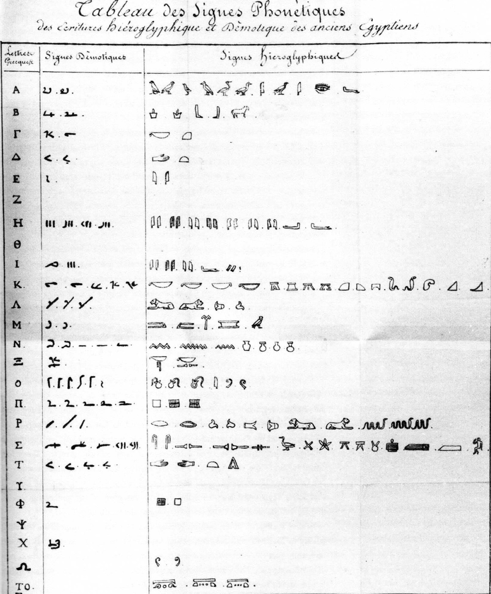 Table of hieroglyphic and demotic phonetic signs